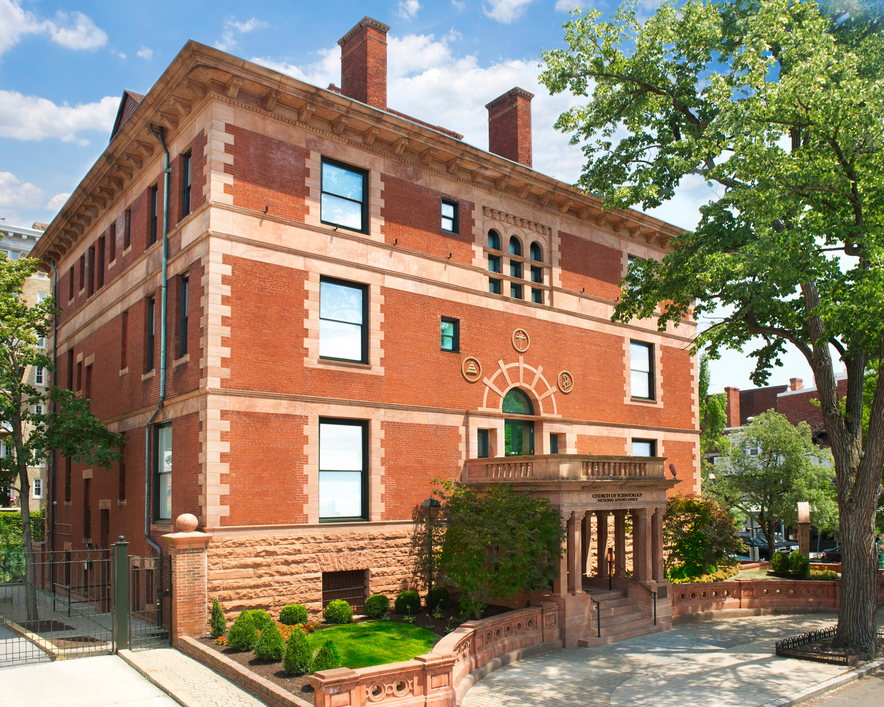 The Church of Scientology National Affairs Office, located in the historic Fraser Mansion at Dupont Circle, extends the array of Church-sponsored social betterment programs and humanitarian initiatives to the spectrum of institutions, organizations and agencies in Washington.